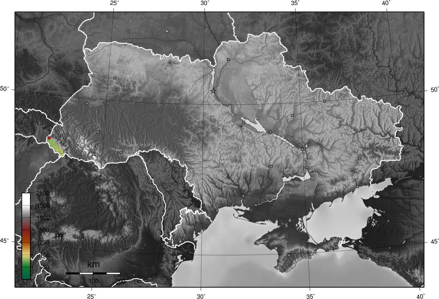 Ukraine. Transcarpathian lowland